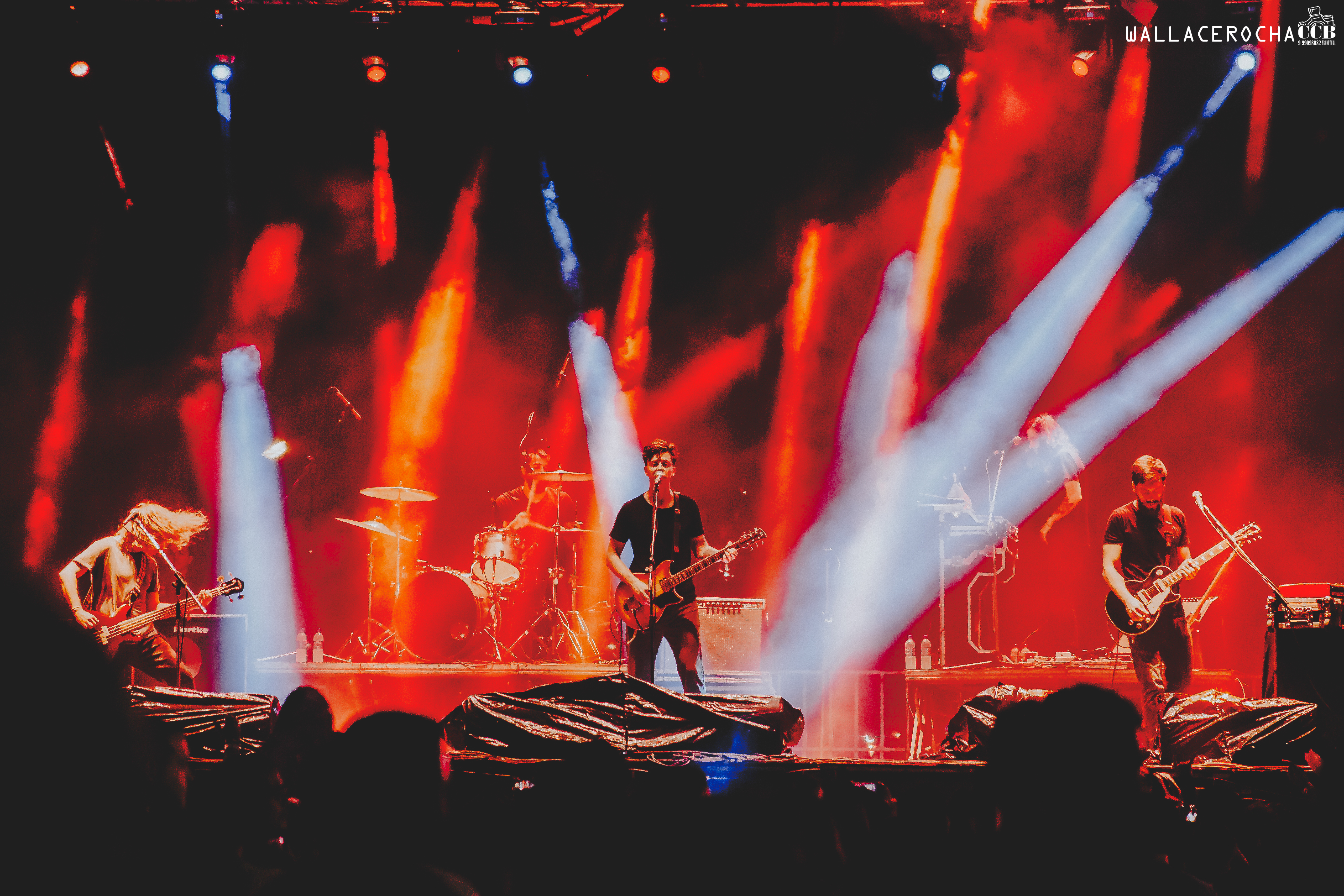 Scalene durante show no Panta no Rock Festival 2018